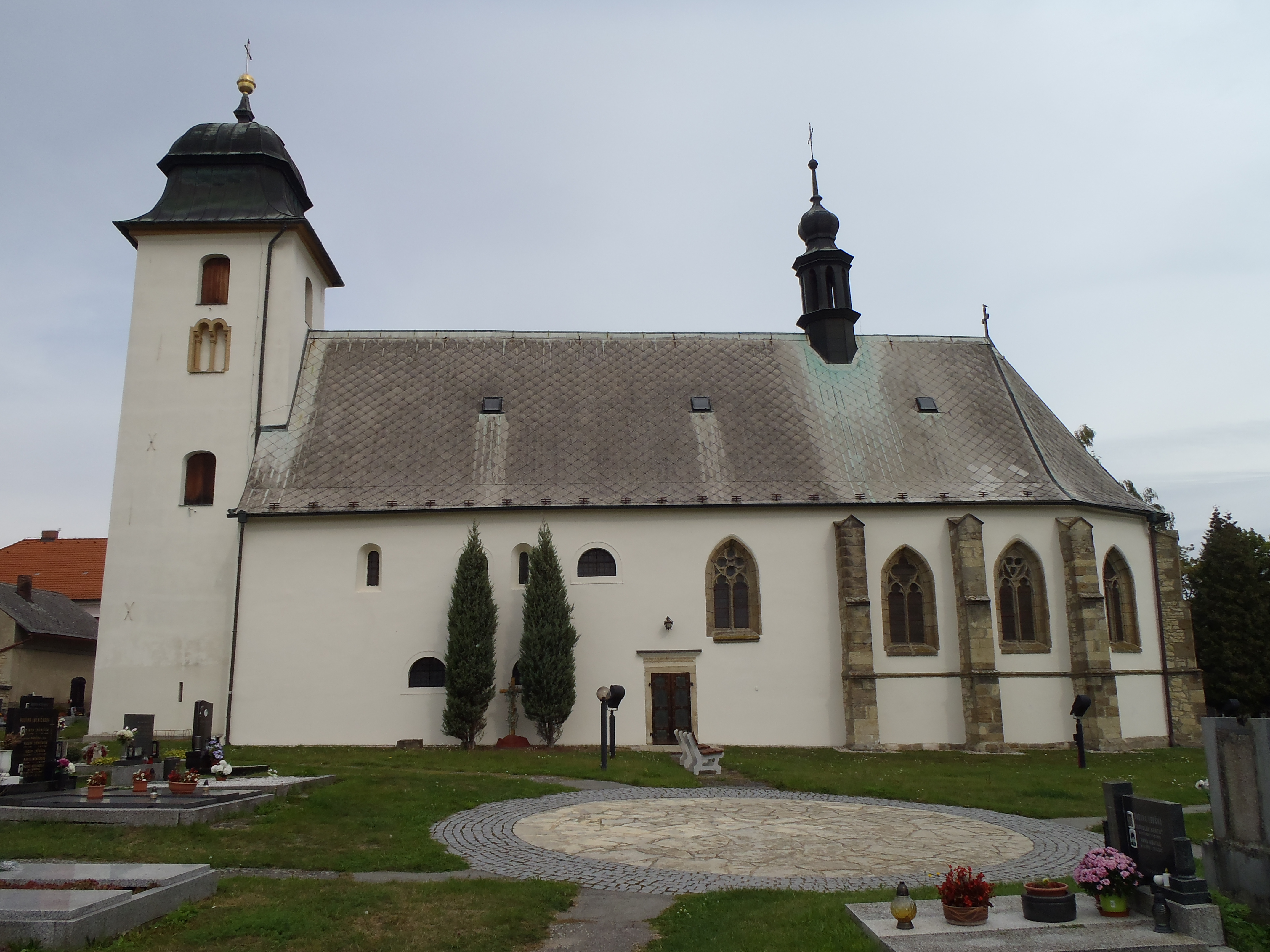 Church of saint Martin in Dolní Újezd, Svitavy district - view from south / cemetery.